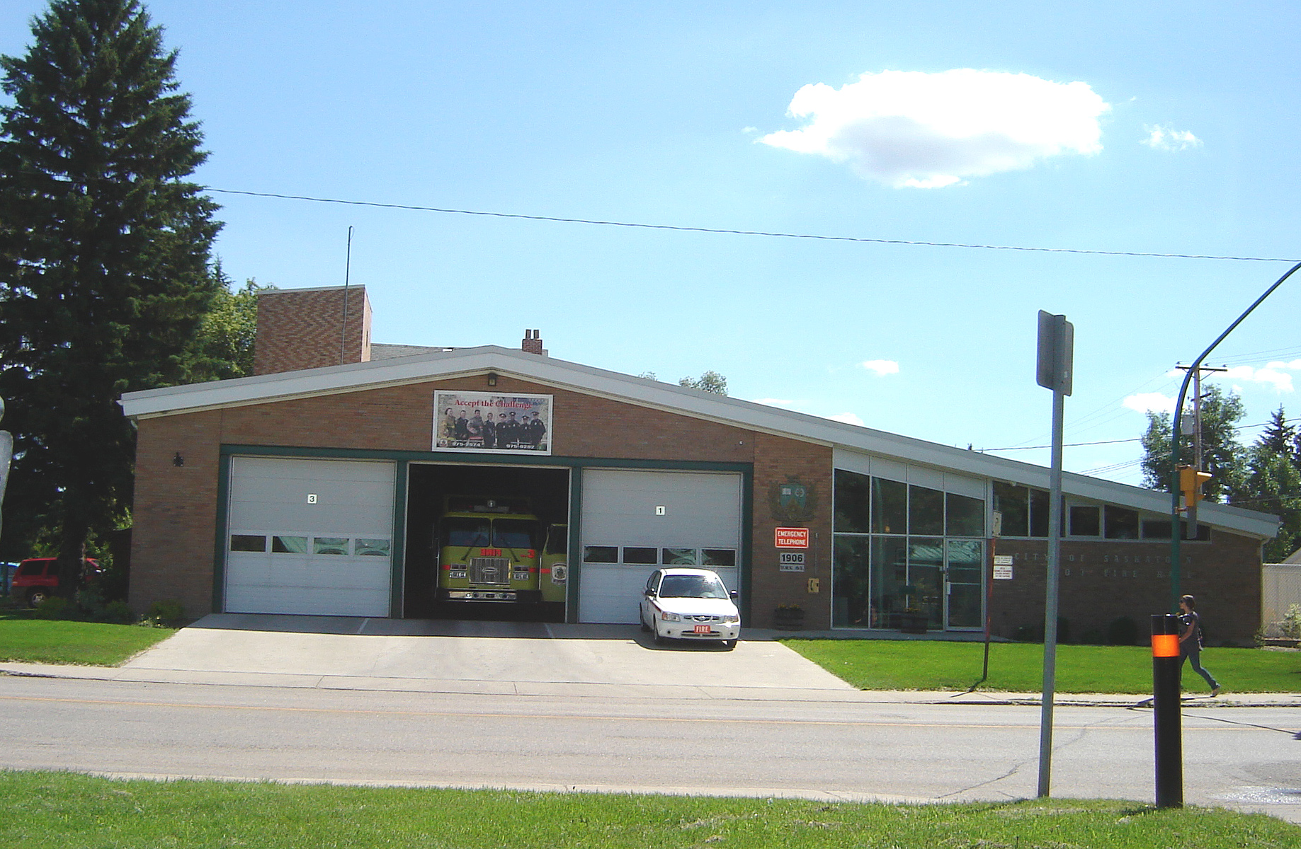 Fire Hall in Queen Elizabeth, Saskatoon subdivision